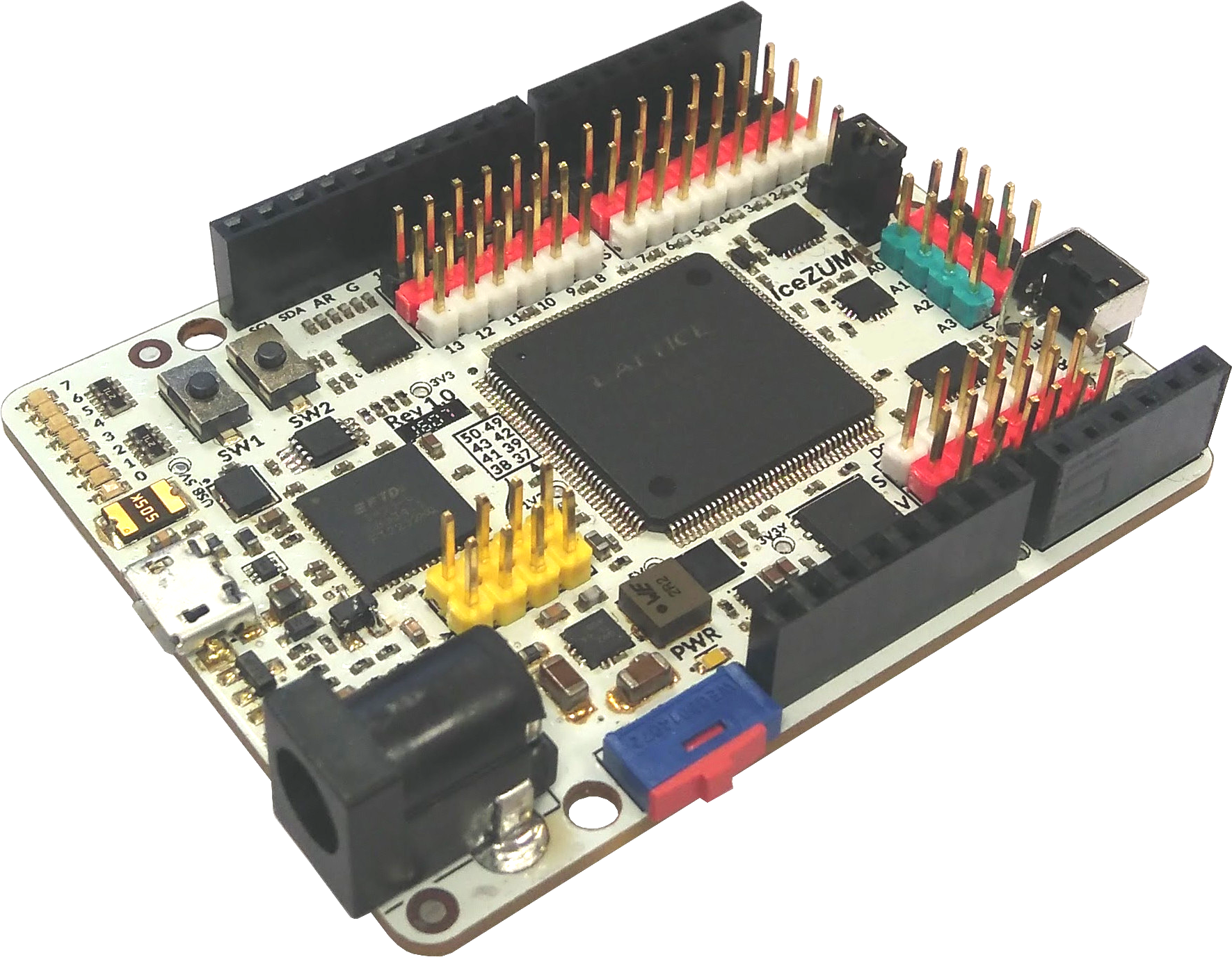 Icezum Alhambra Open FPGA electronic board